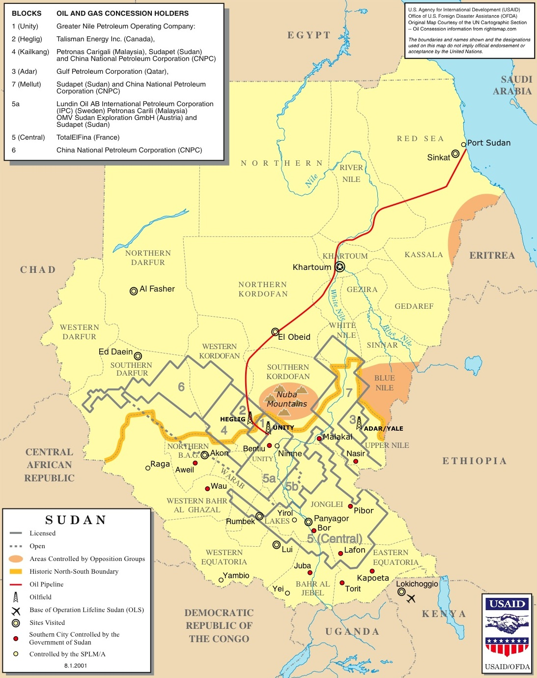 Author: USAID 2001. (converted to jpg). Retrieved on 5 March 2008.